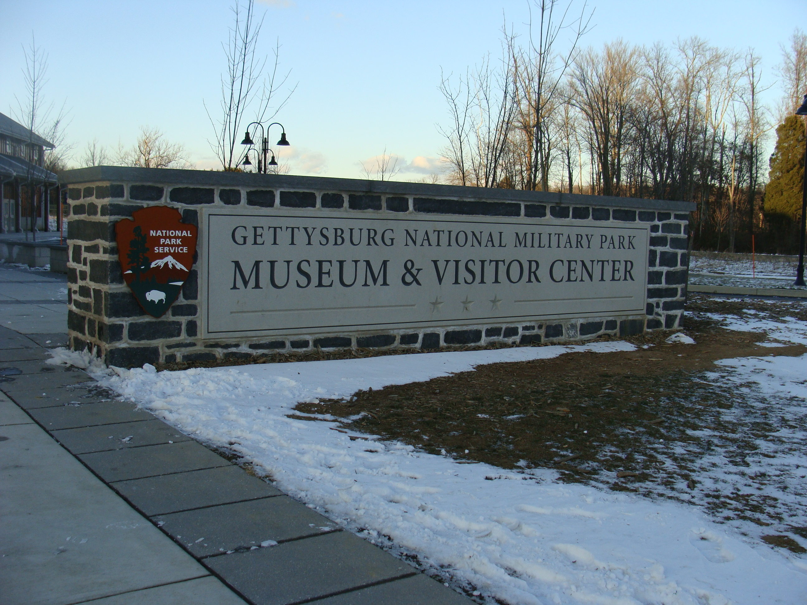 Entrance to the newer Visitor Center of Gettysburg National Military Park.